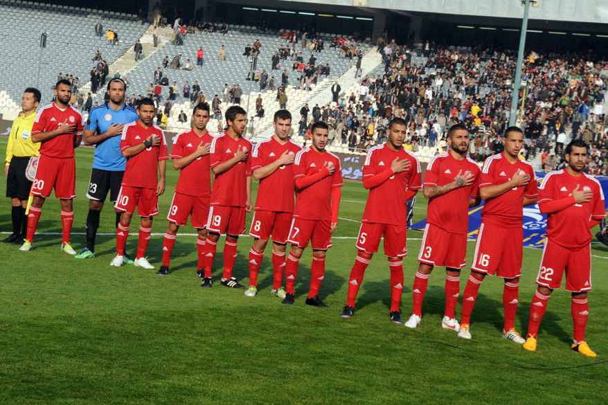 Iran v Lebanon at the 2015 AFC Asian Cup qualifiers.